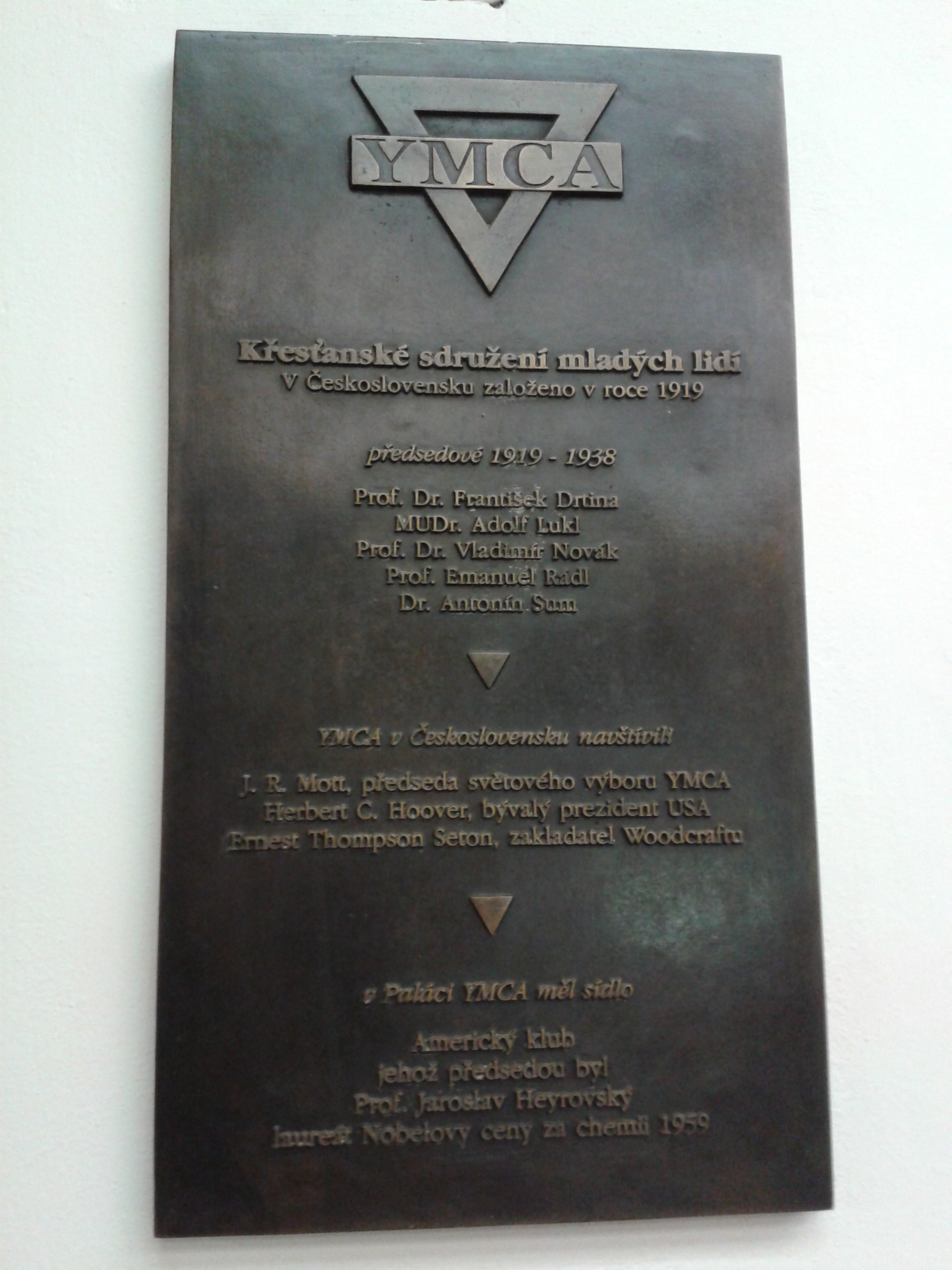 Commemorative plaque (freely accessible) is located in the lobby of the palace YMCA building at the adress: Na Poříčí 1041/12; 110 00 Prague 1 - Nové Město (Czech republic). Plaque recalls the names of Presidents YMCA from 1919 to 1938, the major foreign visits as well as the organization of "American Club", which was housed in the Palace of the YMCA.